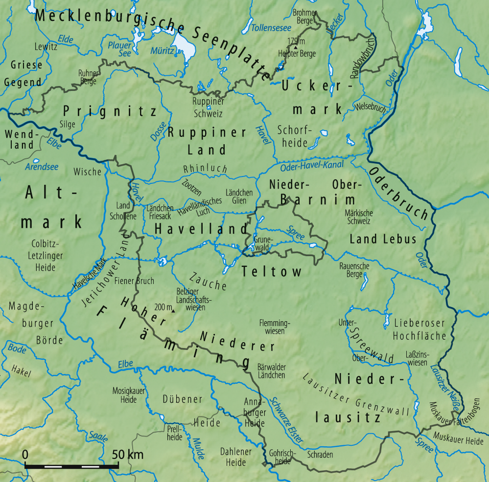 Map of the landscapes of Brandenburg